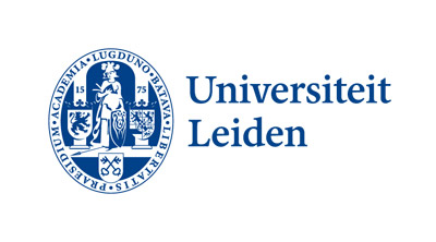 Logo Leiden University.(Since 2013; name of the university on the right side)